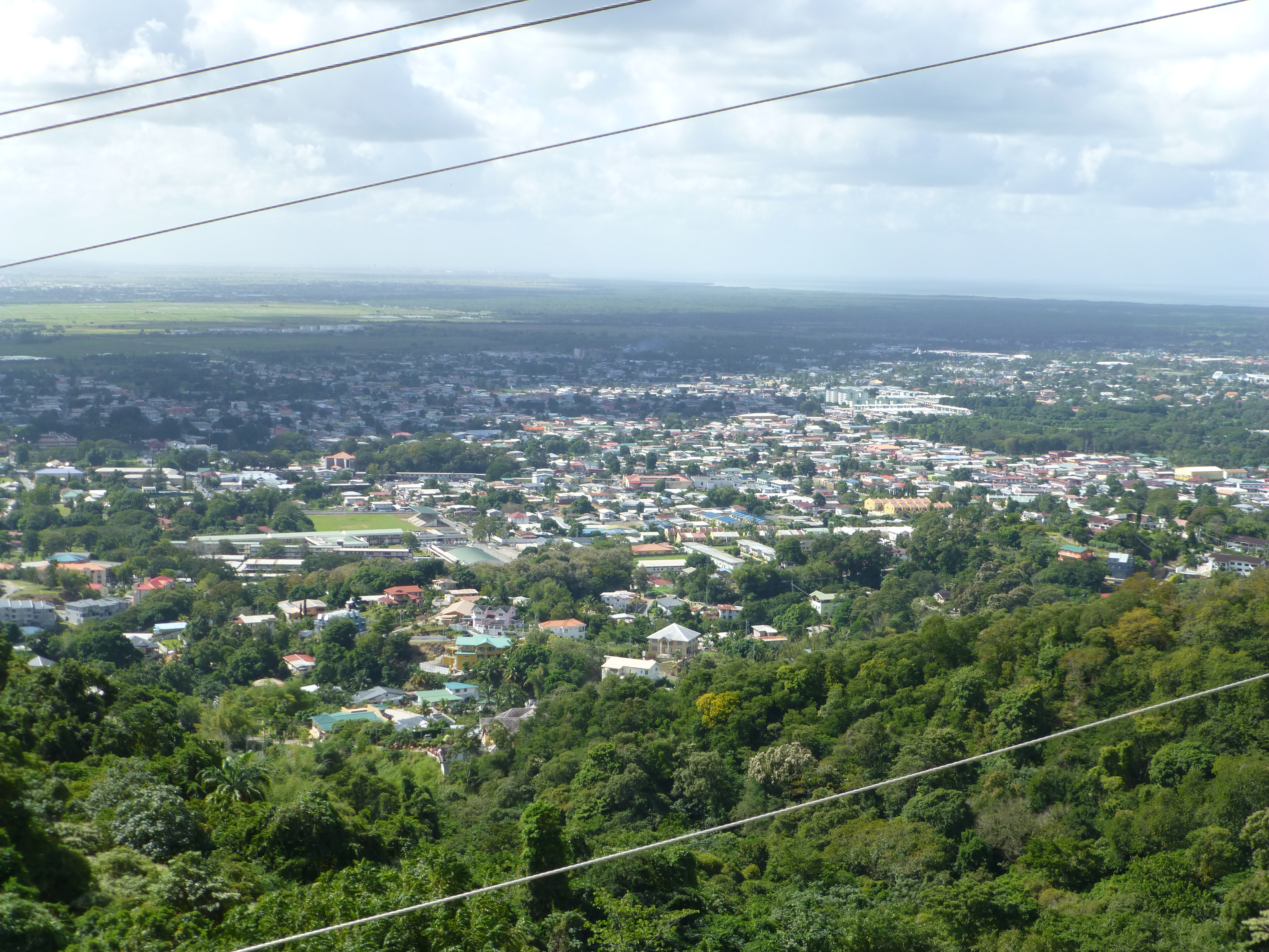 View over St. Augustine, Trinidad from Mount St. Benedict. Left of the picture is Tunapuna, right of it is St. Joseph.